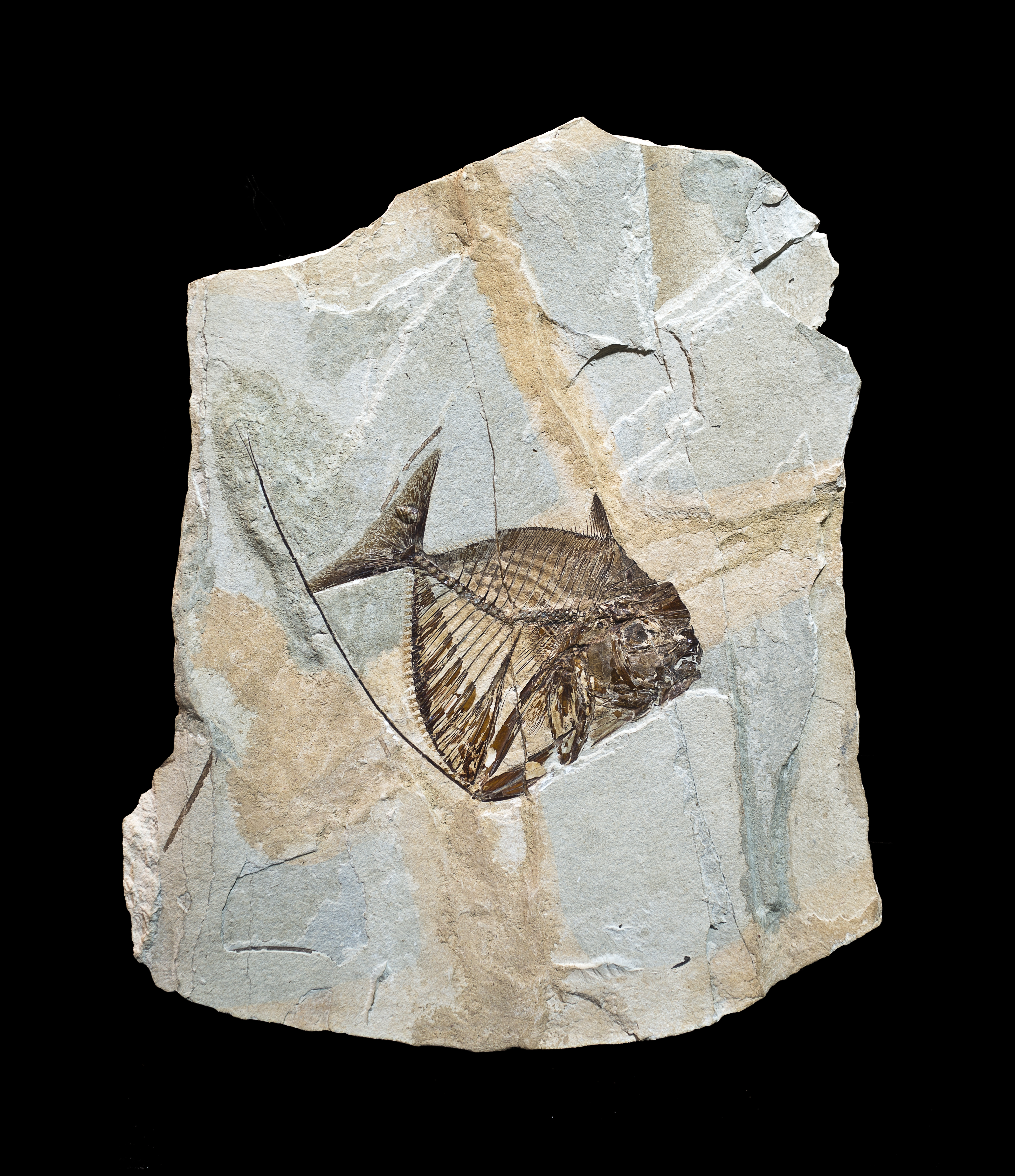 Mene rhombae (Volta, 1796) Stage : Eocene - 50 million years ago Locality : Bolca, Monti Lessini, Verona Province, Italy Size : 49x36 cm